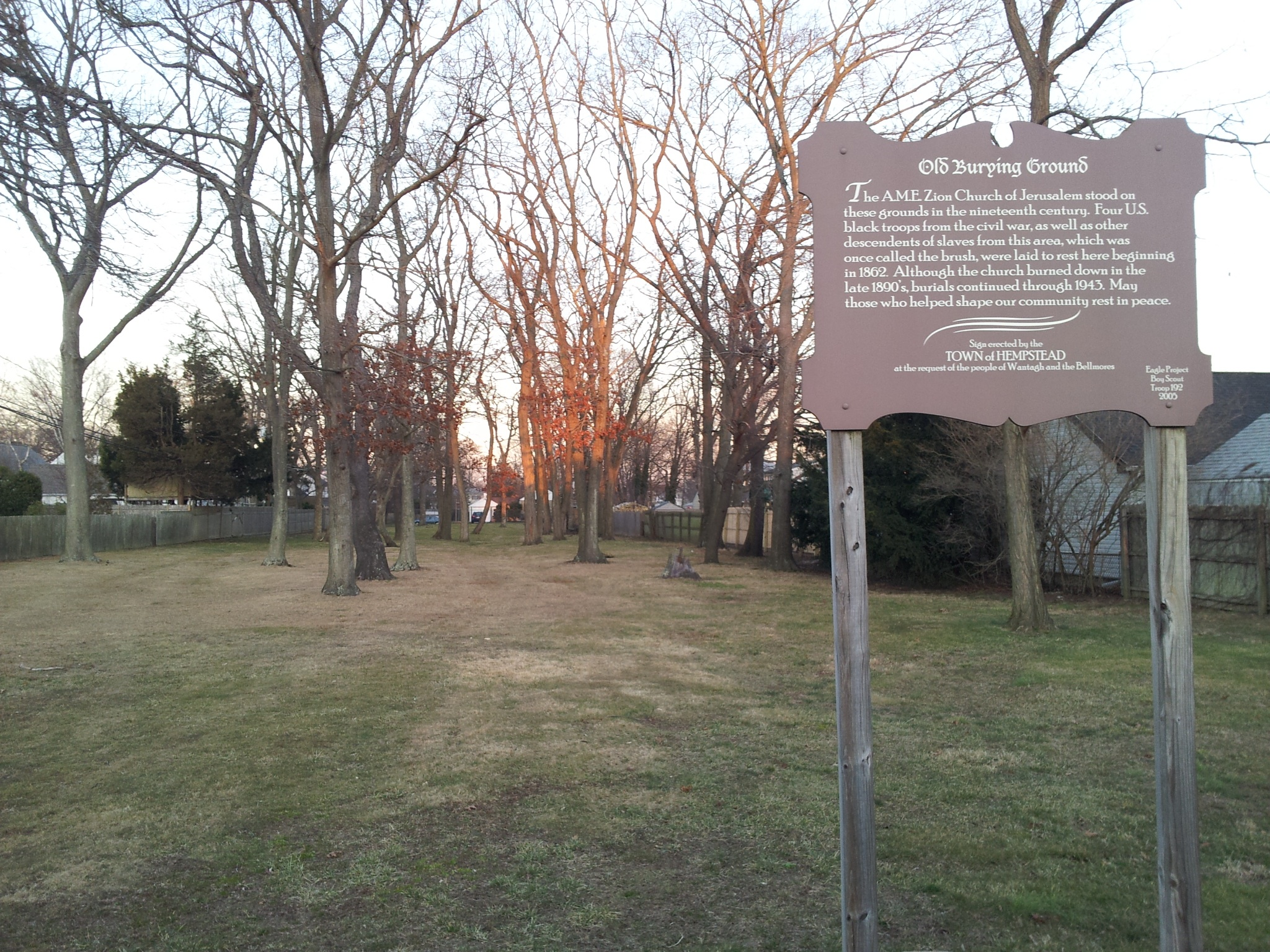 This is a photo of Oakfield Cemetery (The Old Burying Ground) 1851 maintained by The Town of Hempstead.